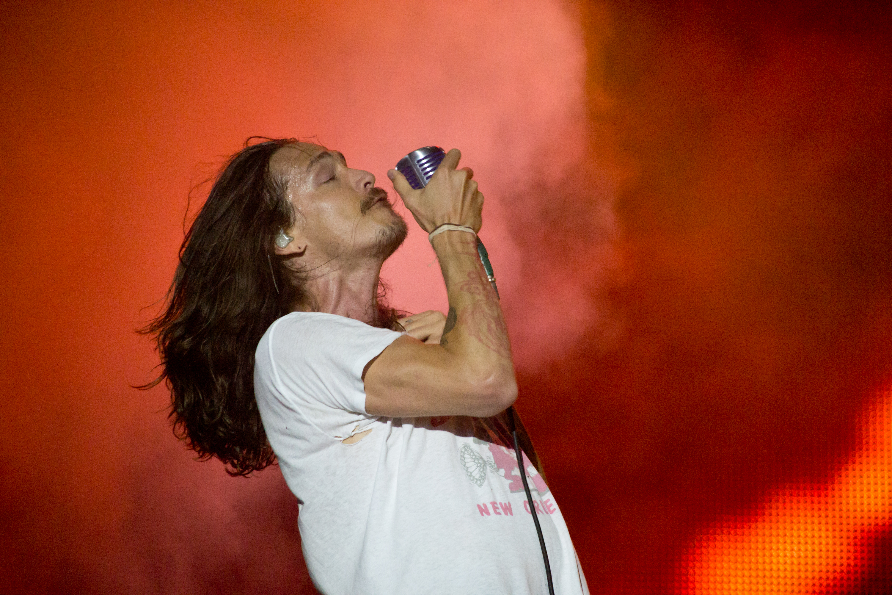 Incubus in Rock in Rio Madrid 2012.